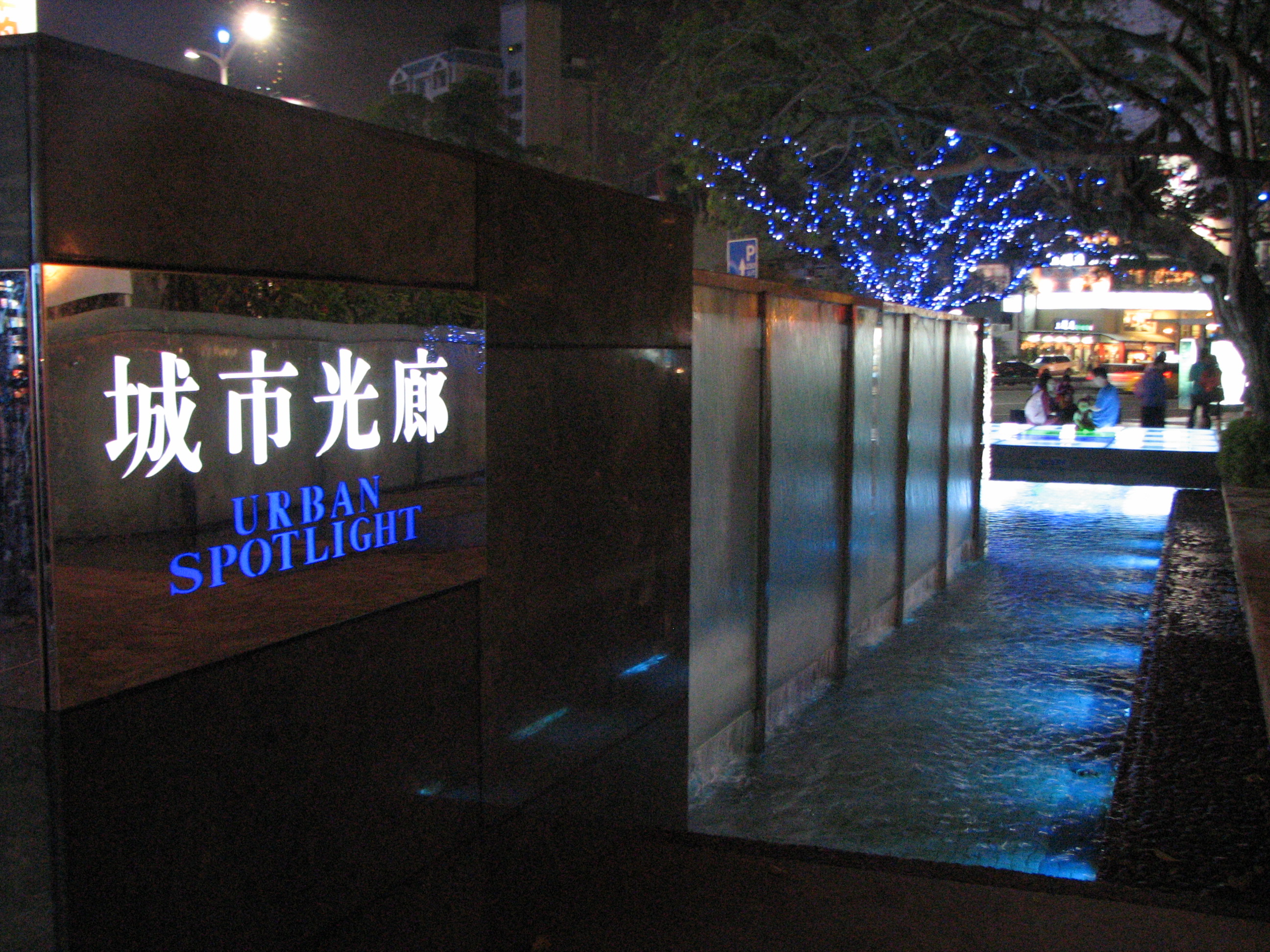 Urban Spotlight in Kaohsiung City, Taiwan.